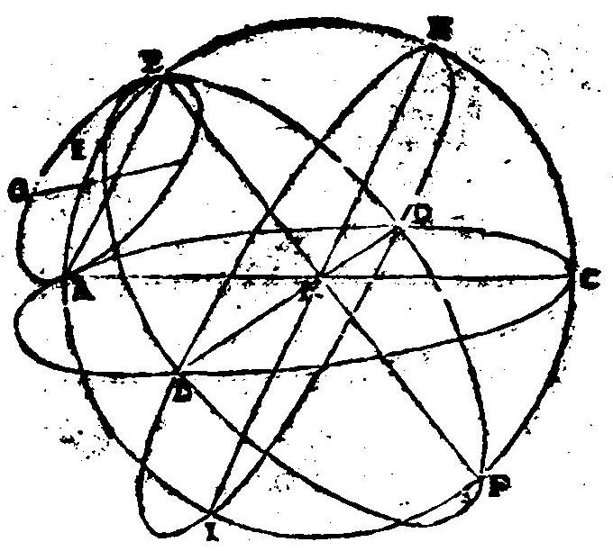 Muzio Oddi (1569-1639), De gli horologi solari, Venice 1638